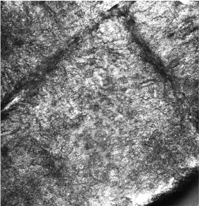 An image that was shot using the VivaScope confocal microscope.